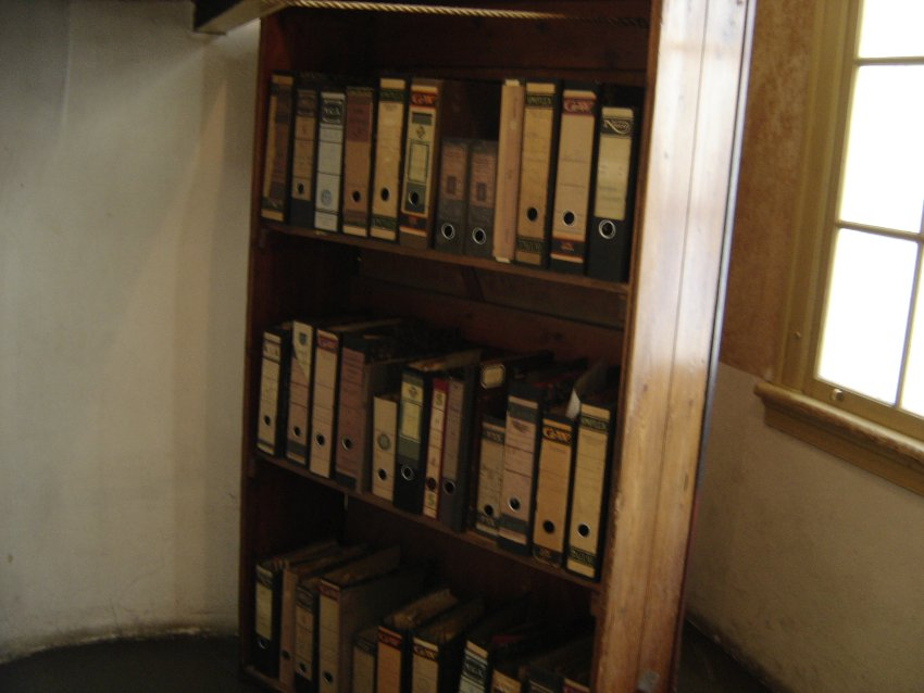 Reconstruction of the bookshelf that covered the entrance to the Secret Annex where Anne Frank and her family stayed in hiding to avoid persecution, in the Anne-Frank-House in Amsterdam. Photograph by Erik Möller.